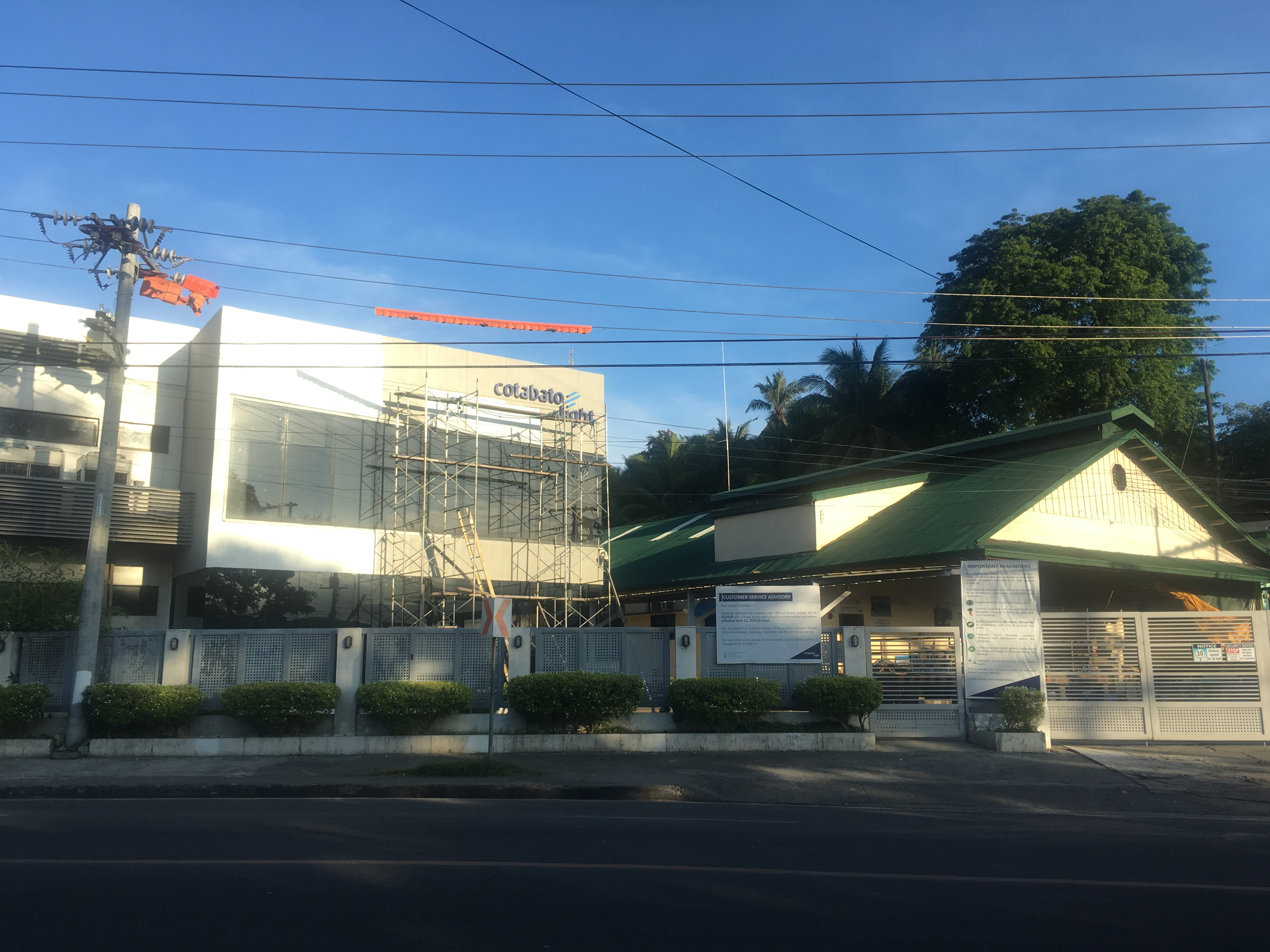 Cotabato Light ang Power Company